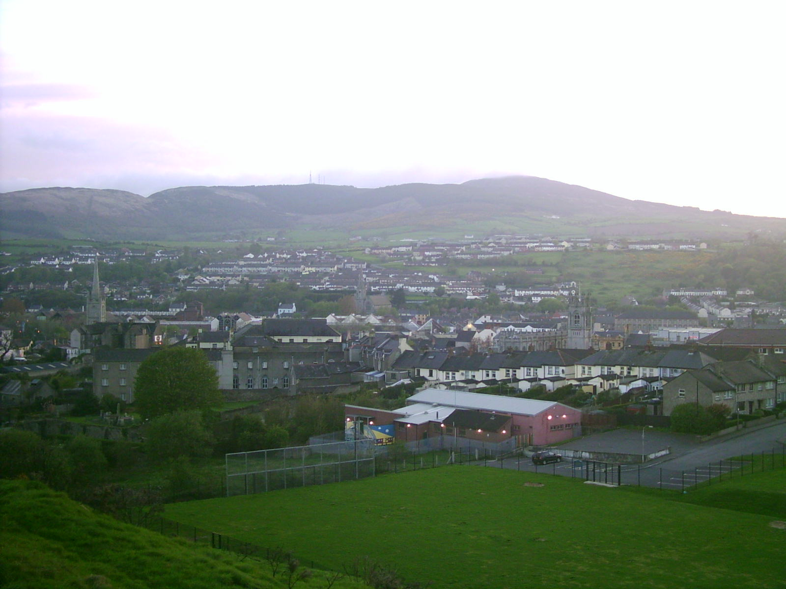 A view over Newry from the Windmill road area showing the spires of several churches, taken close to the city centre. The Cathedral is visible to the right of centre, while the dominican church is near the centre of the picture, with Saint Mary's to the far left. Camlough mountain is clearly visible. (Isn't Newry in Armagh, not Down?)